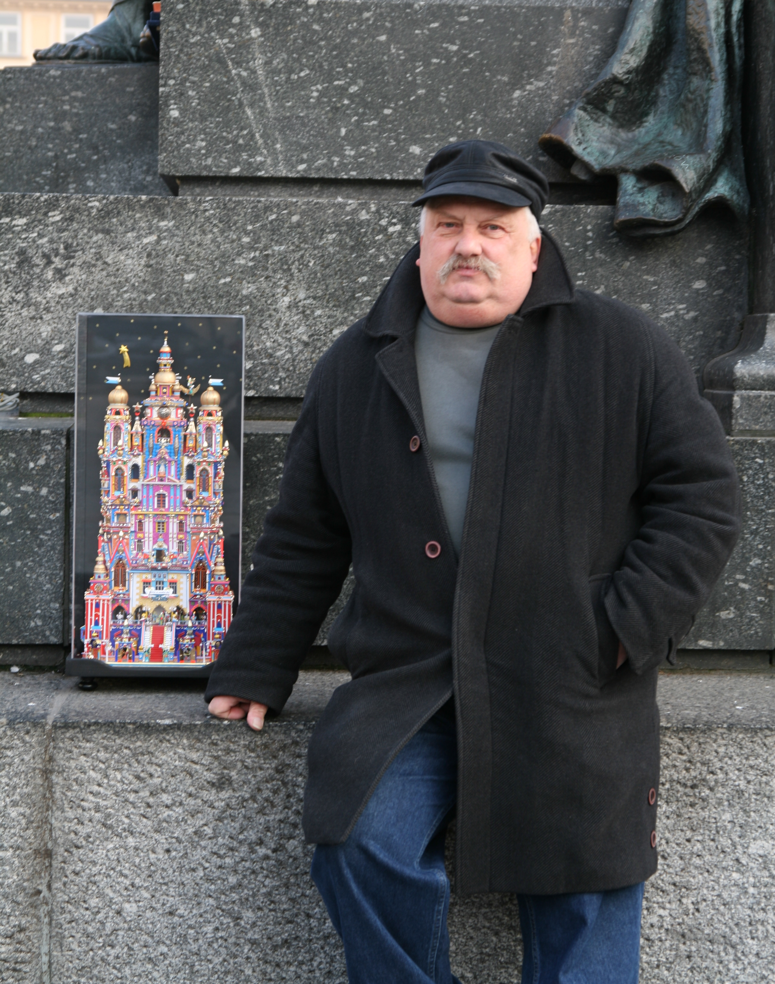 Kazimierz Stopiński, Kraków crib-maker.